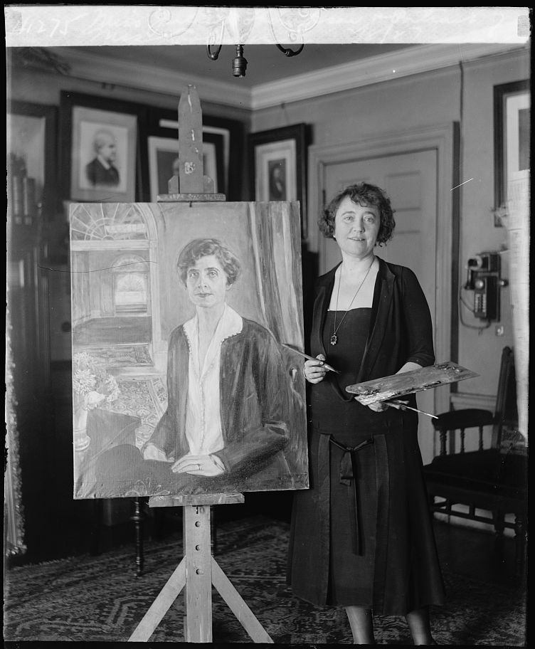 A photograph of Juliet Thompson standing next to her portrait of First Lady Grace Coolidge. Title: Miss Juliet Thompson & portrait of Mrs. Coolidge, 2/8/27 Date Created/Published: [19]27 February 8. Medium: 1 negative : glass ; 4 x 5 in. or smaller Reproduction Number: LC-DIG-npcc-16657 (digital file fromoriginal) Rights Advisory: No known restrictions on publication. Call Number: LC-F8- 41275 [P&P] Repository: Library of Congress Prints and Photographs Division Washington, D.C. 20540 USA Notes: Title from unverified data provided by the National Photo Company on the negative or negative sleeve. Gift; Herbert A. French; 1947. This glass negative might show streaks and other blemishes resulting from a natural deterioration in the original coatings. Format: Glass negatives. Collections: National Photo Company Collection Part of: National Photo Company Collection (Library of Congress)